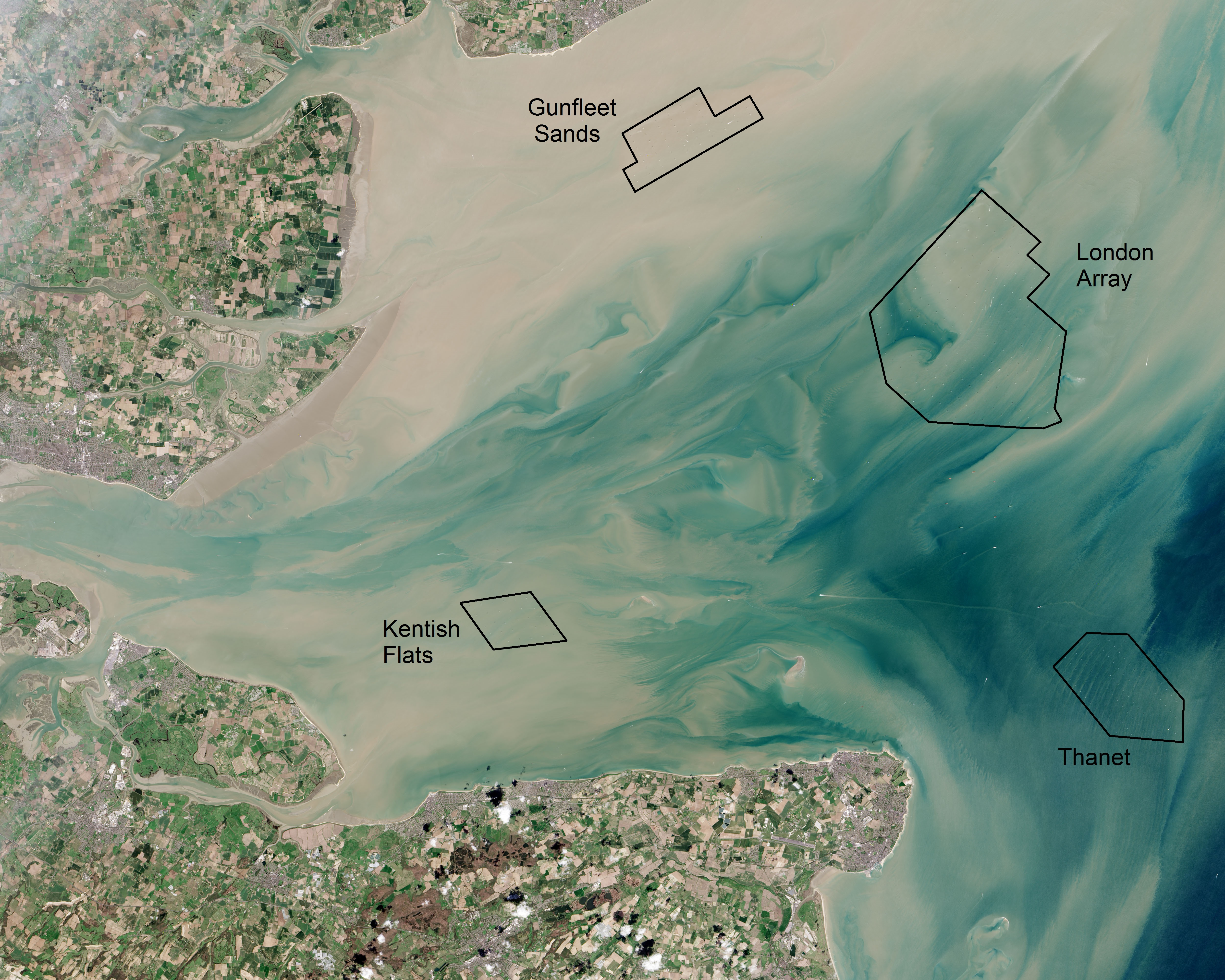 Thames Estuary and Wind Farms from Space NASA. Windfarms visible in the image are: London Array, Thanet Wind Farm, Kentish Flats Wind Farm and Gunfleet Sands Wind Farm. Kentish Flats is pictured before its 2015 extension was constructed.